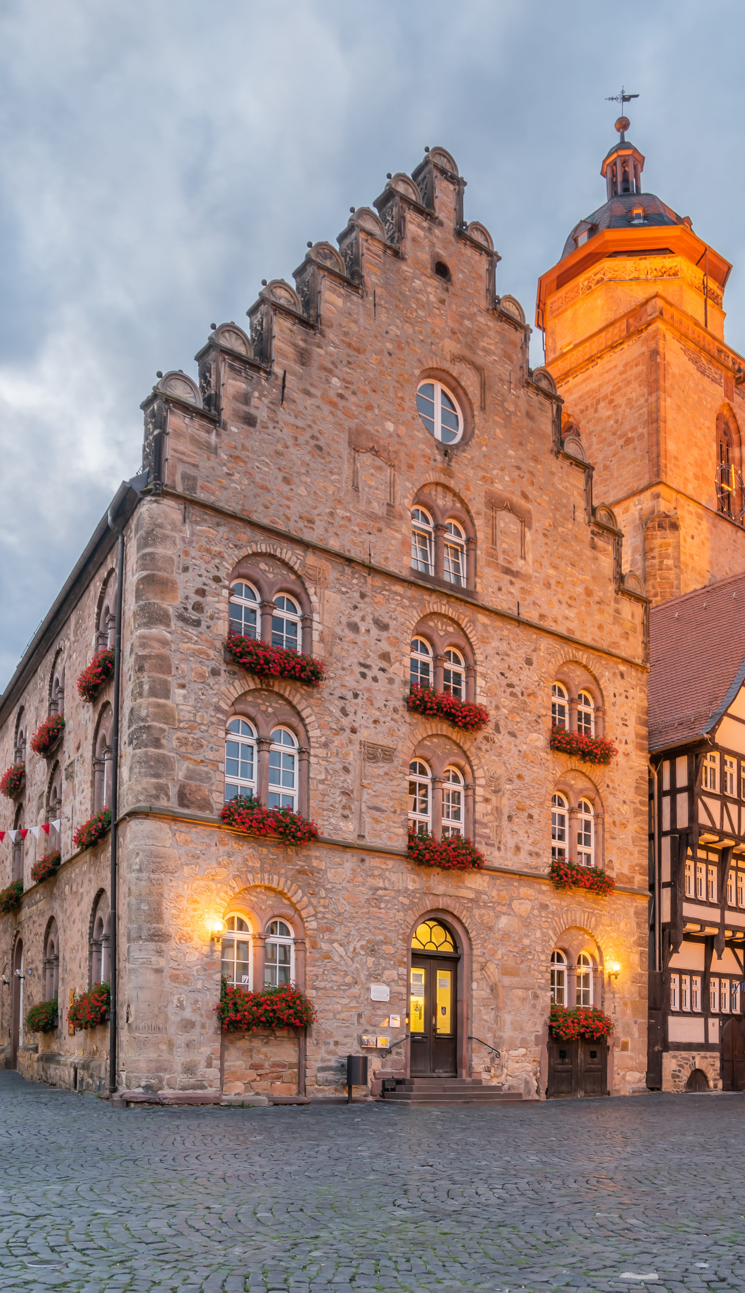 Building at Markt 3 in Alsfeld, Hesse, Germany